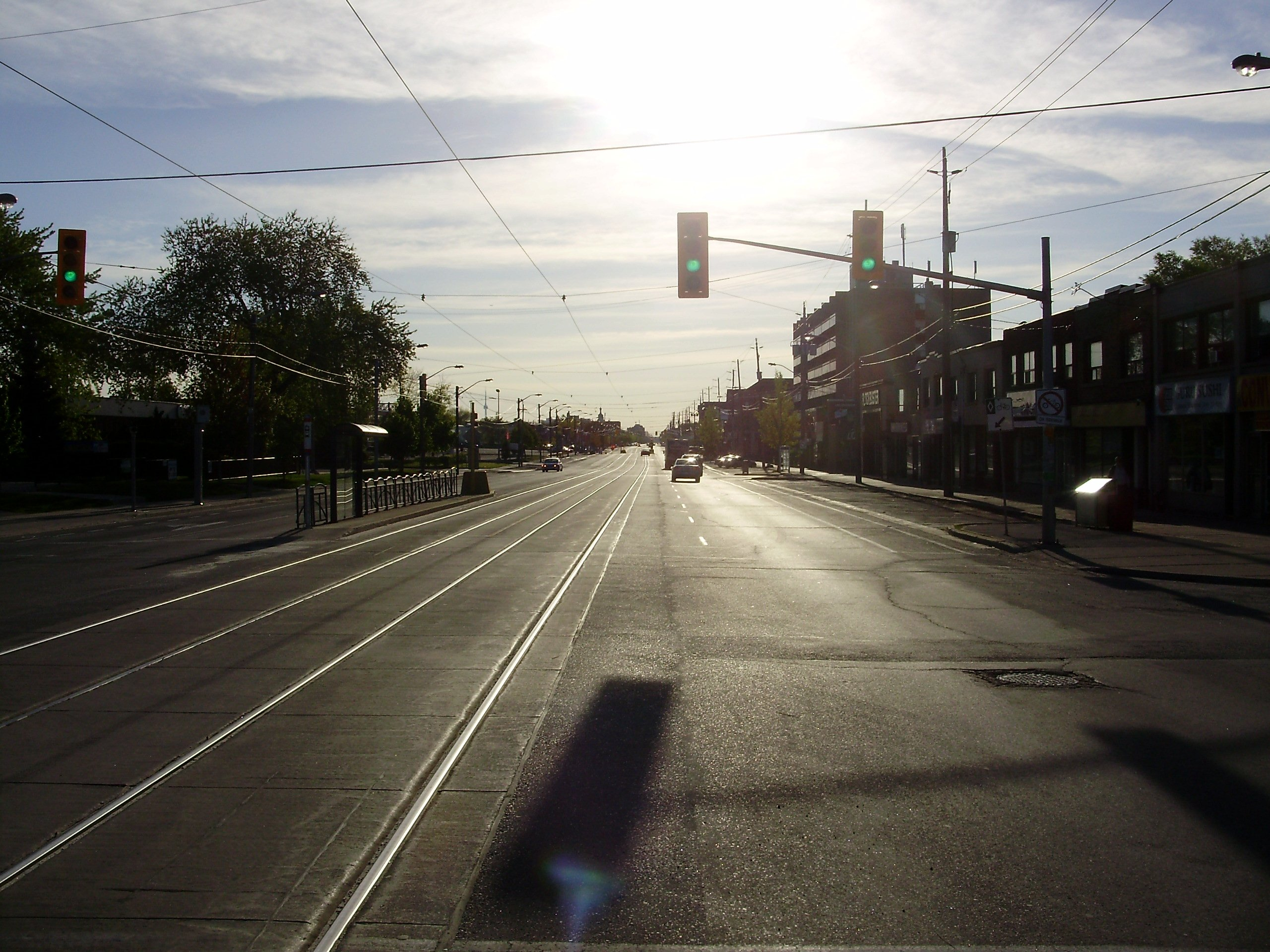 Looking east down Lake Shore Boulevard West as it cuts through the neighbourhood of Long Branch in Toronto, Canada.